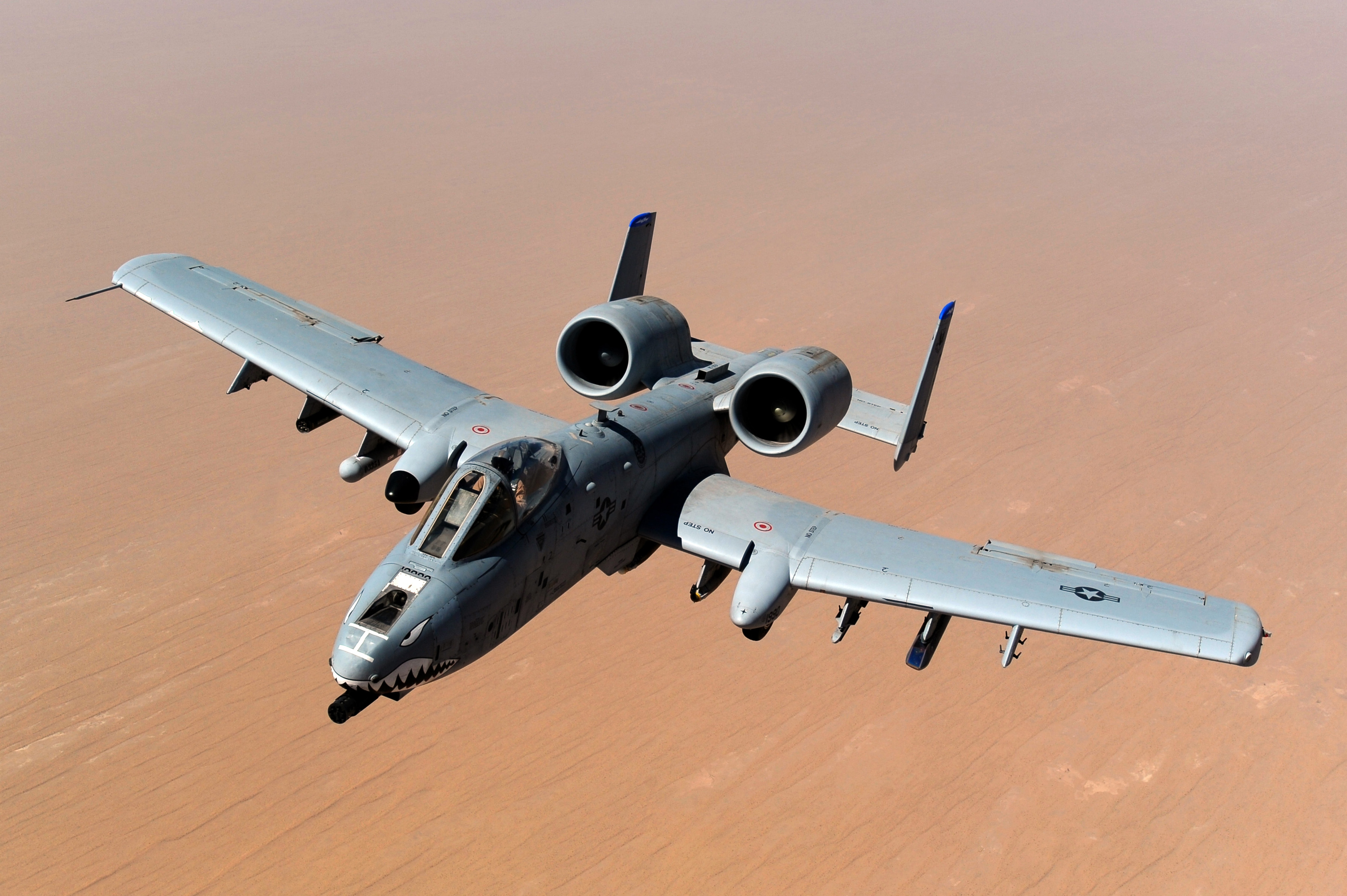 An A-10 Thunderbolt II, assigned to the 74th Fighter Squadron, Moody Air Force Base, GA, returns to mission after receiving fuel from a KC-135 Stratotanker, 340th Expeditionary Air Refueling Squadron, over the skies of Afghanistan in support of Operation Enduring Freedom, May 8, 2011.